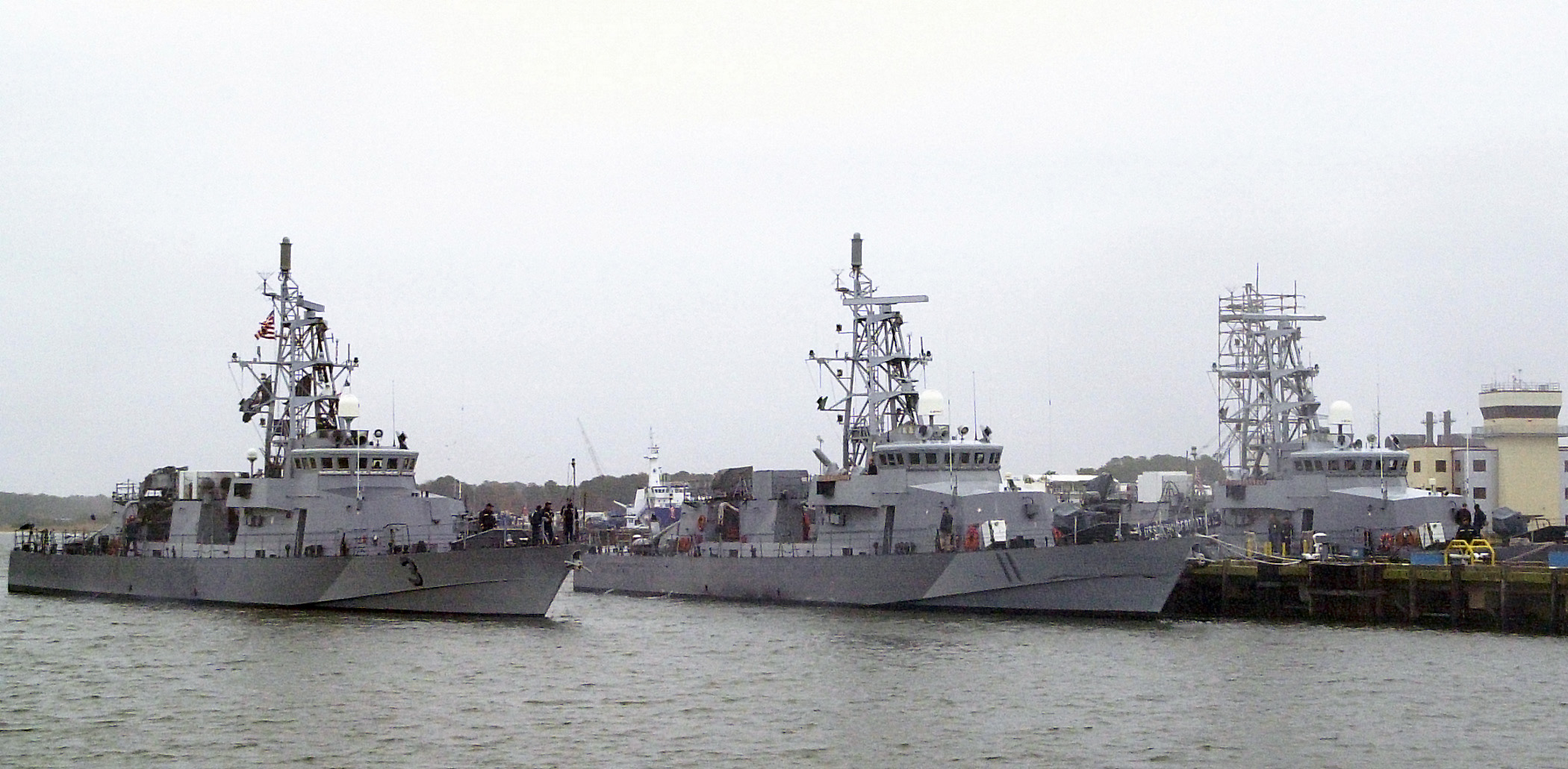 A starboard bow view showing the US Navy (USN) Cyclone Class; Coastal Defense Ship, USS HURRICANE (PC 3) underway in the harbor at Naval Amphibious Base (NAB), Little Creek, Virginia (VA) as it moves past the USS WHIRLWIND (PC 11).Location: NAB LITTLE CREEK, VIRGINIA (VA) UNITED STATES OF AMERICA (USA)